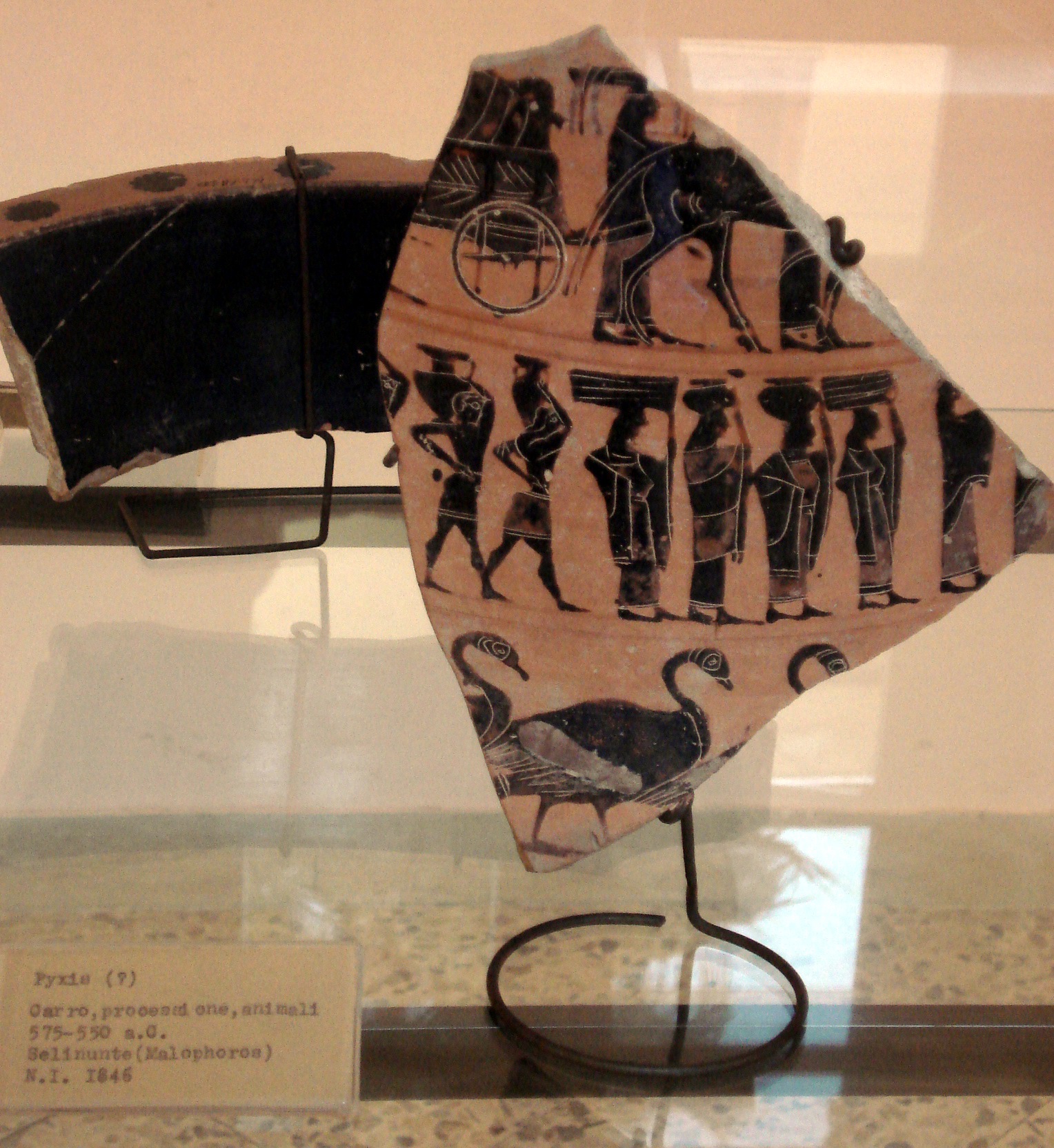 Procession of men and women with a carriage. Fragment of a Greek black-figured pyxis (?), 570–550 a.C. From the temple of Demeter Malophoros in Selinunte, Sicily. Museo archeologico regionale di Palermo (NI 1846).